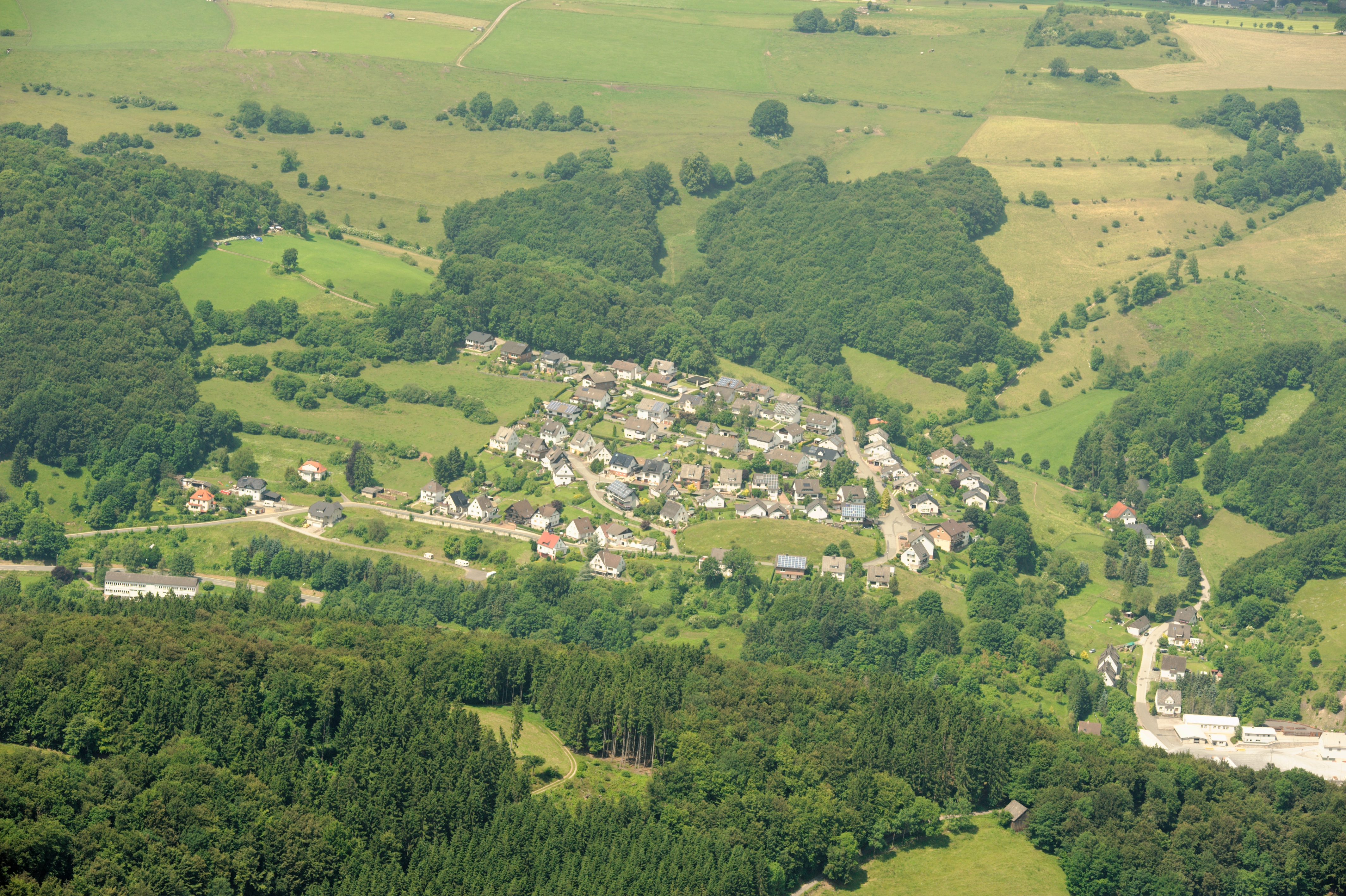 Fotoflug Sauerland-Ost: Wohnsiedlung nördlich vom Bahnhof Messinghausen; oben rechts im Bild Teile des Naturschutzgebietes Egge (HSK-204). The making of this document was supported by the Community-Budget of Wikimedia Germany.